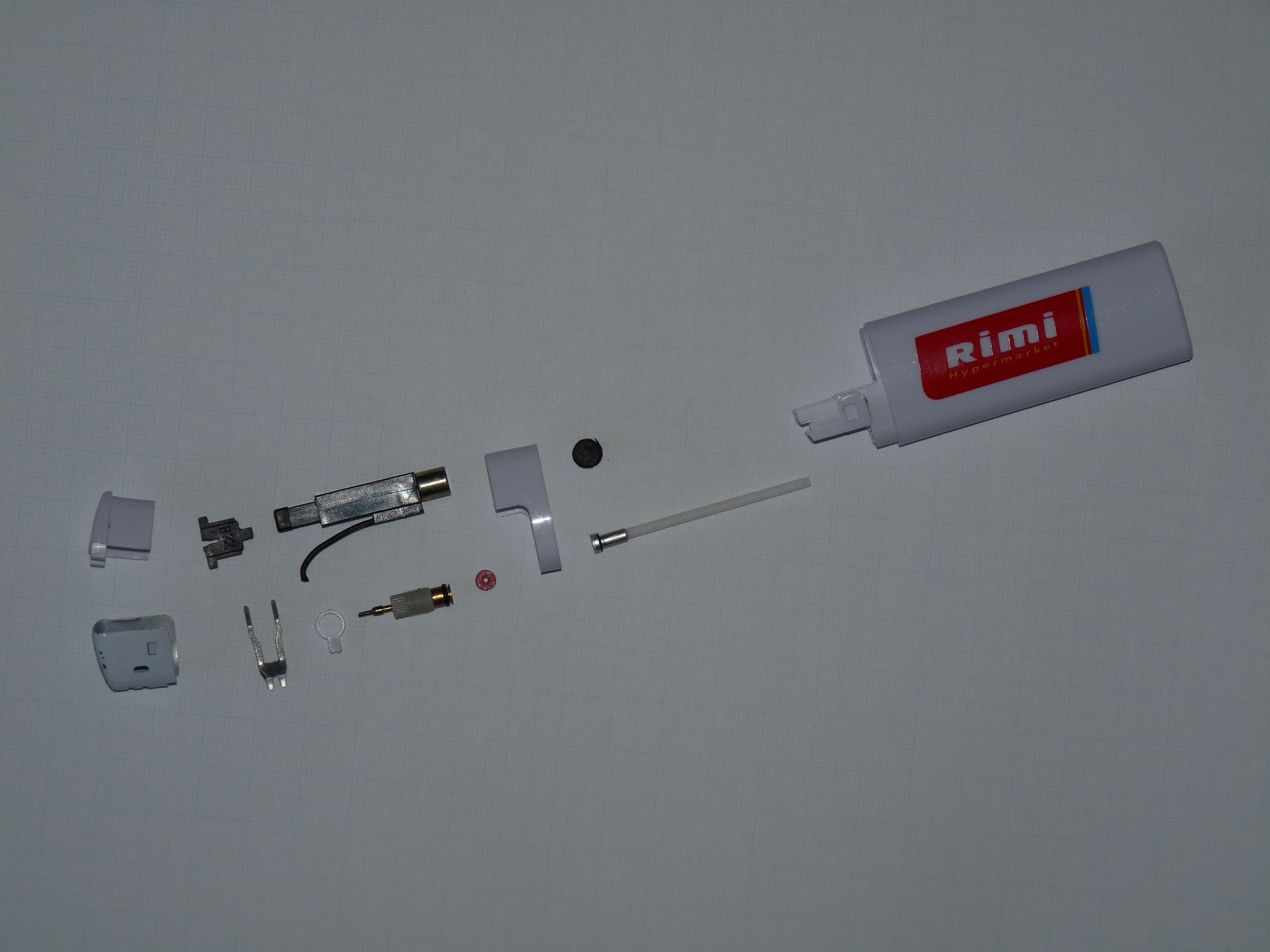 Disassembled cheap chinese lighter with piezo-ignition.